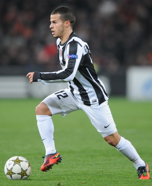 Sebastian giovinco